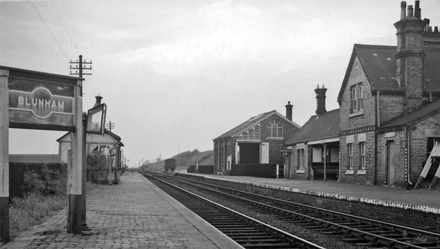 Blunham Station. View westward, towards Bedford; ex-LNW (Bletchley) - Bedford - Cambridge line. The station and line were closed completely on 1/1/68, only the section Bedford - Bletchley of the important cross-country link being left.